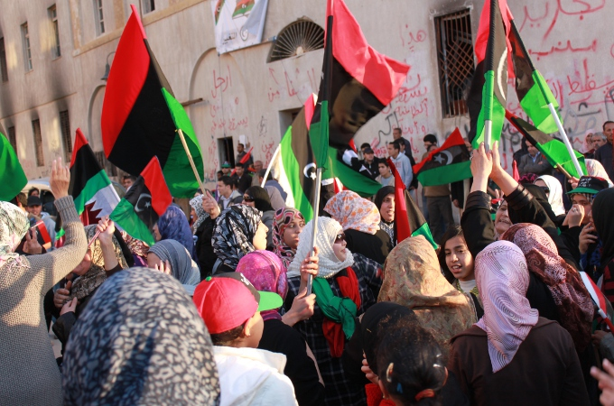 A group of around 100 women demonstrate outside the city's main courthouse in support of the rebels.